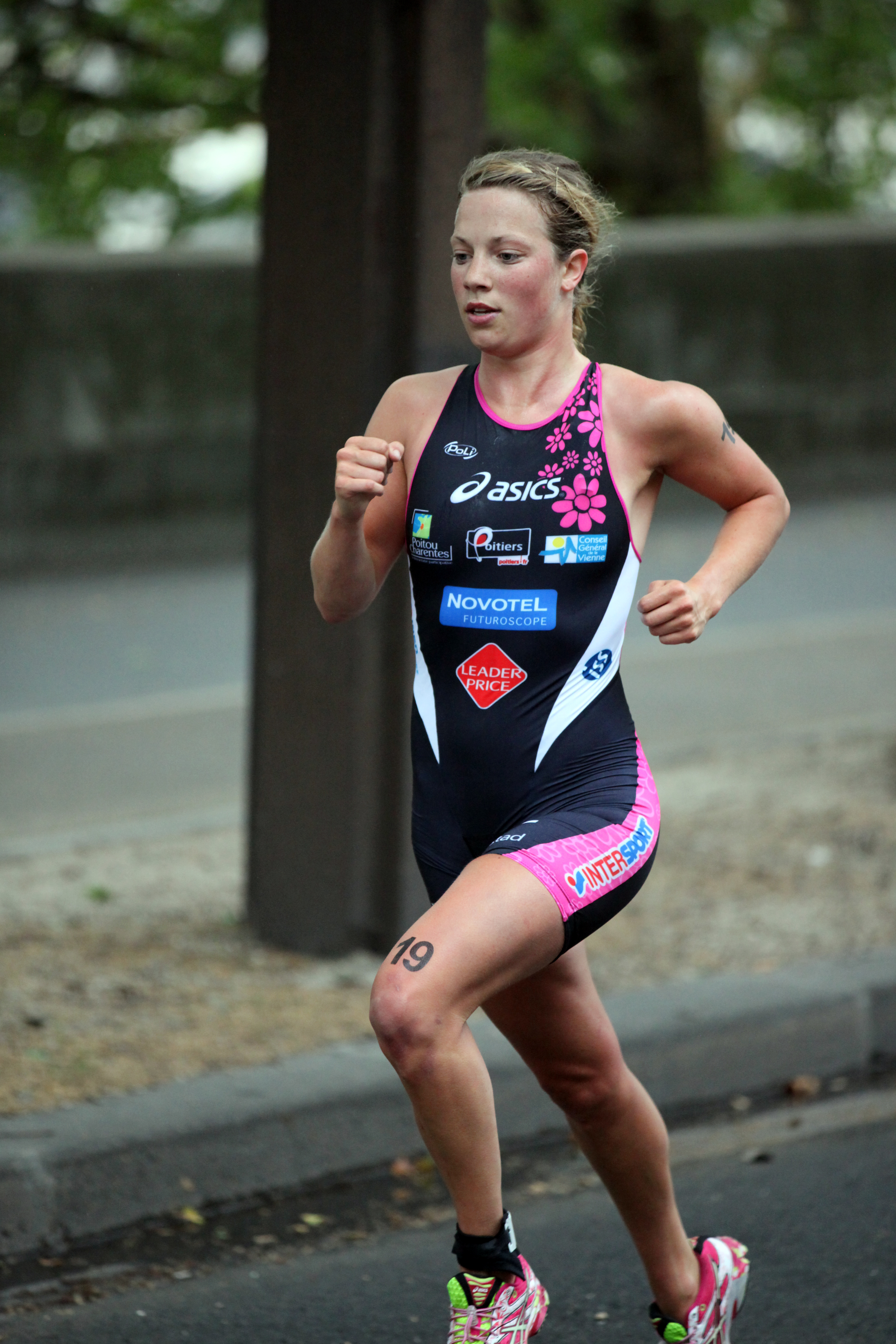 Holly Lawrence at the Grand Prix triathlon (Lyonnaise des Eaux) in Paris, 2011.